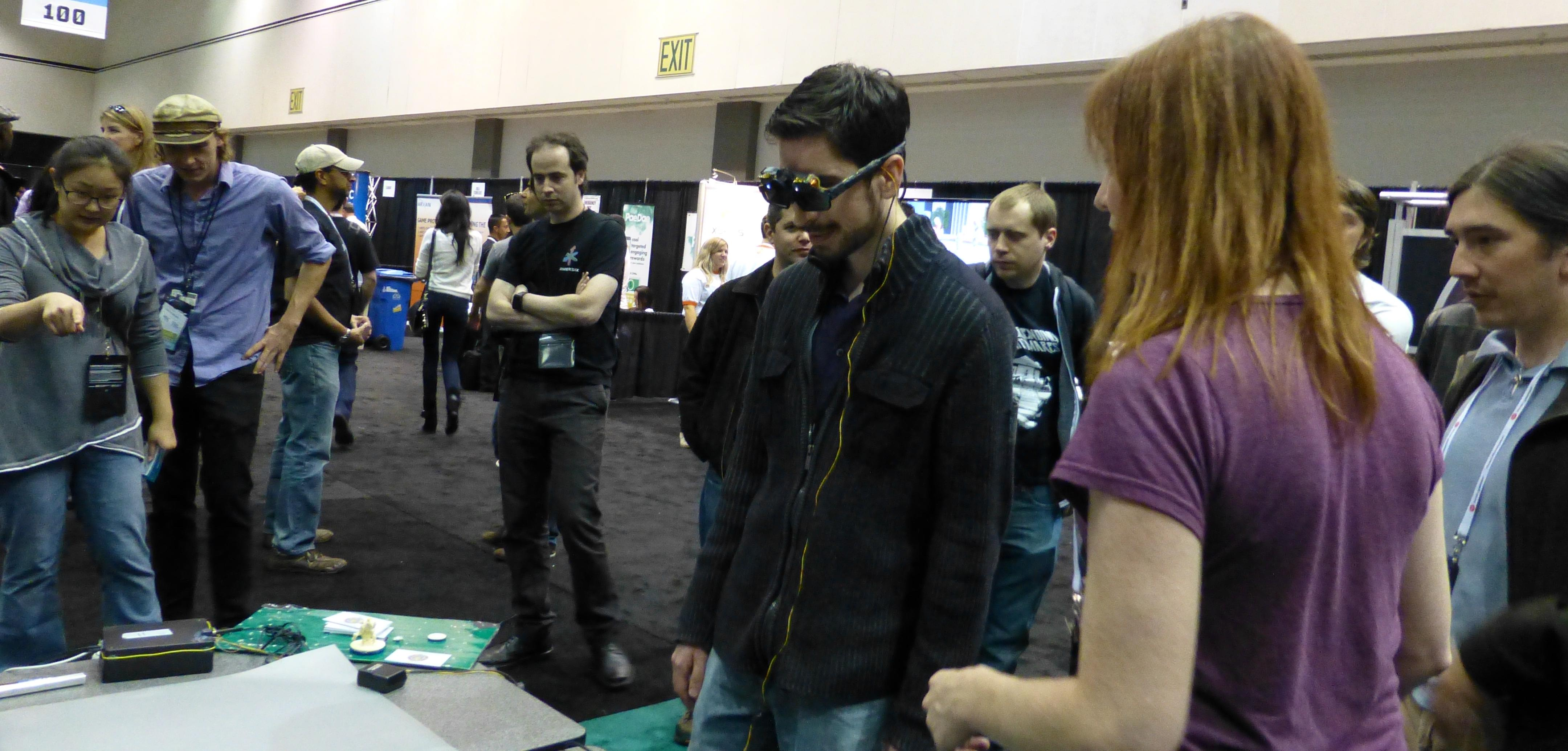 Jeri from Technical Illusions explaining castAR to attendees